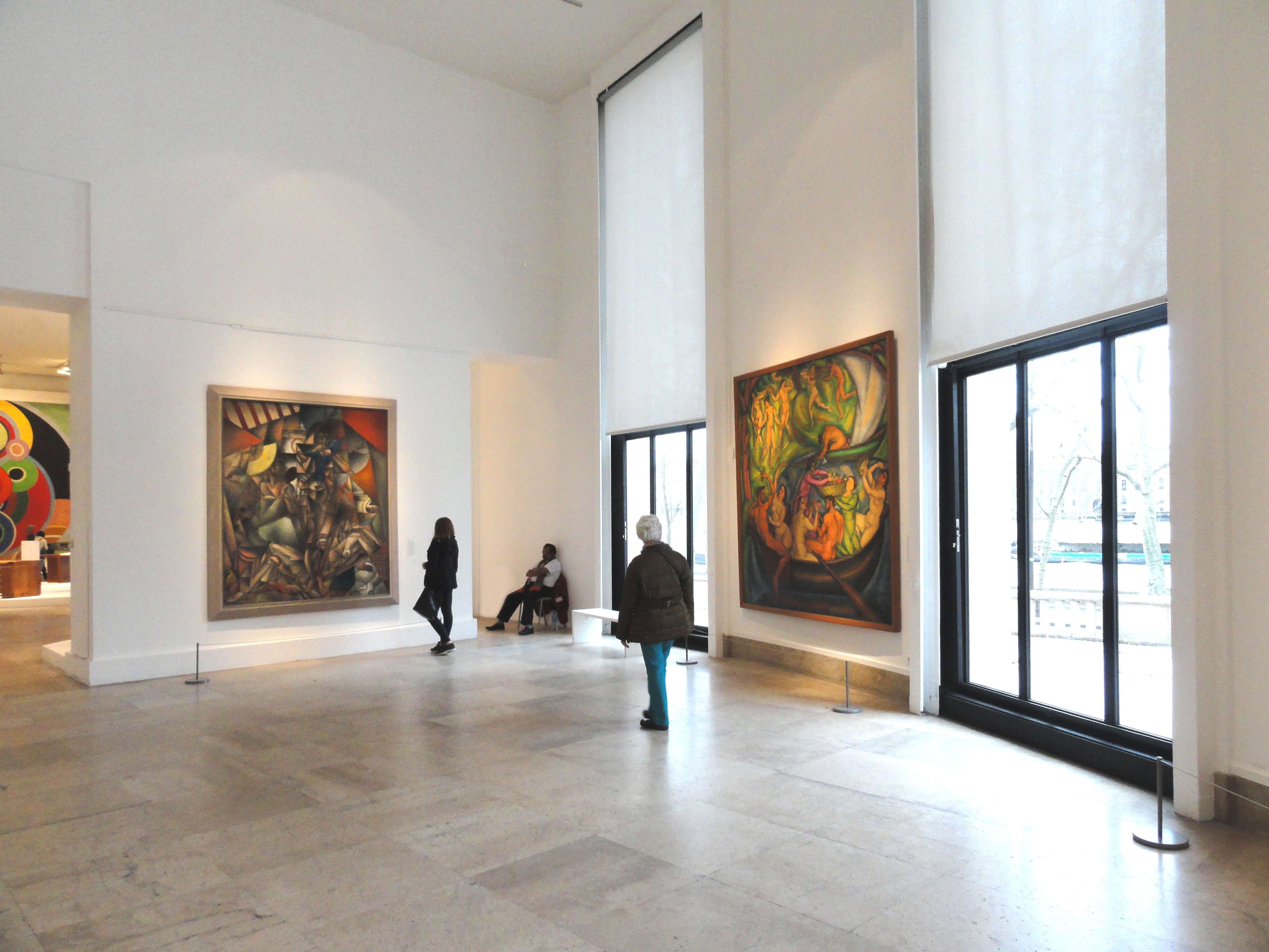 The Cubist room at Musée d'Art Moderne de la Ville de Paris. Left: Jean Metzinger, 1912-13, L'Oiseau bleu, (The Blue Bird). Right: Two works by André Lhote